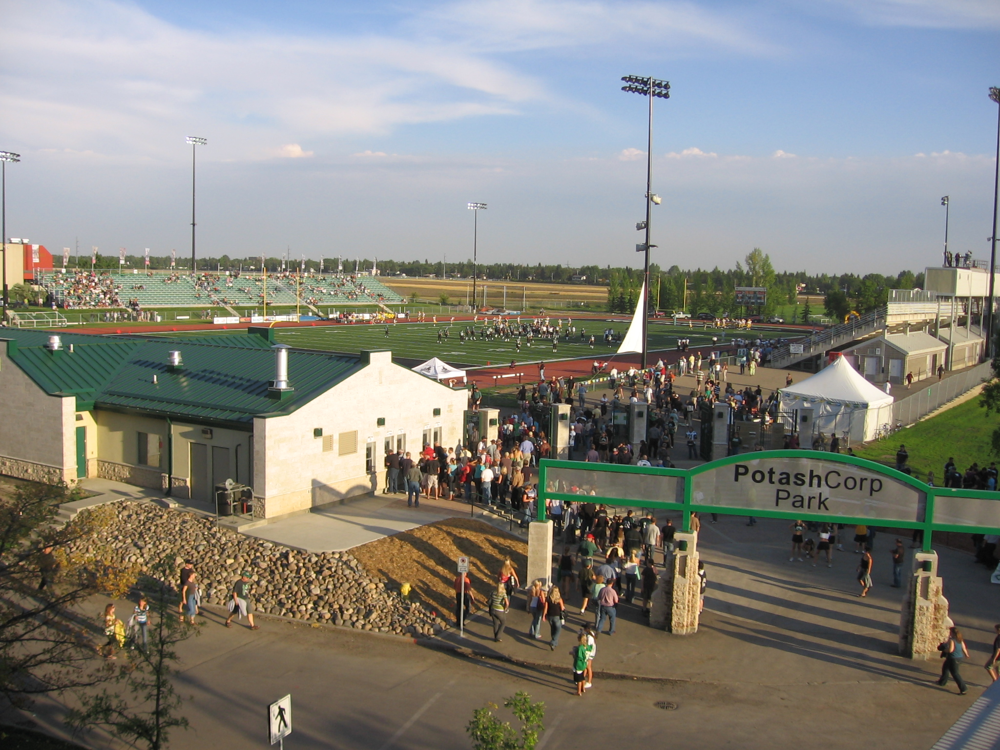 A view from the parkade of Griffiths Stadium at Potash Corp Park in Saskatoon, Saskatchewan.